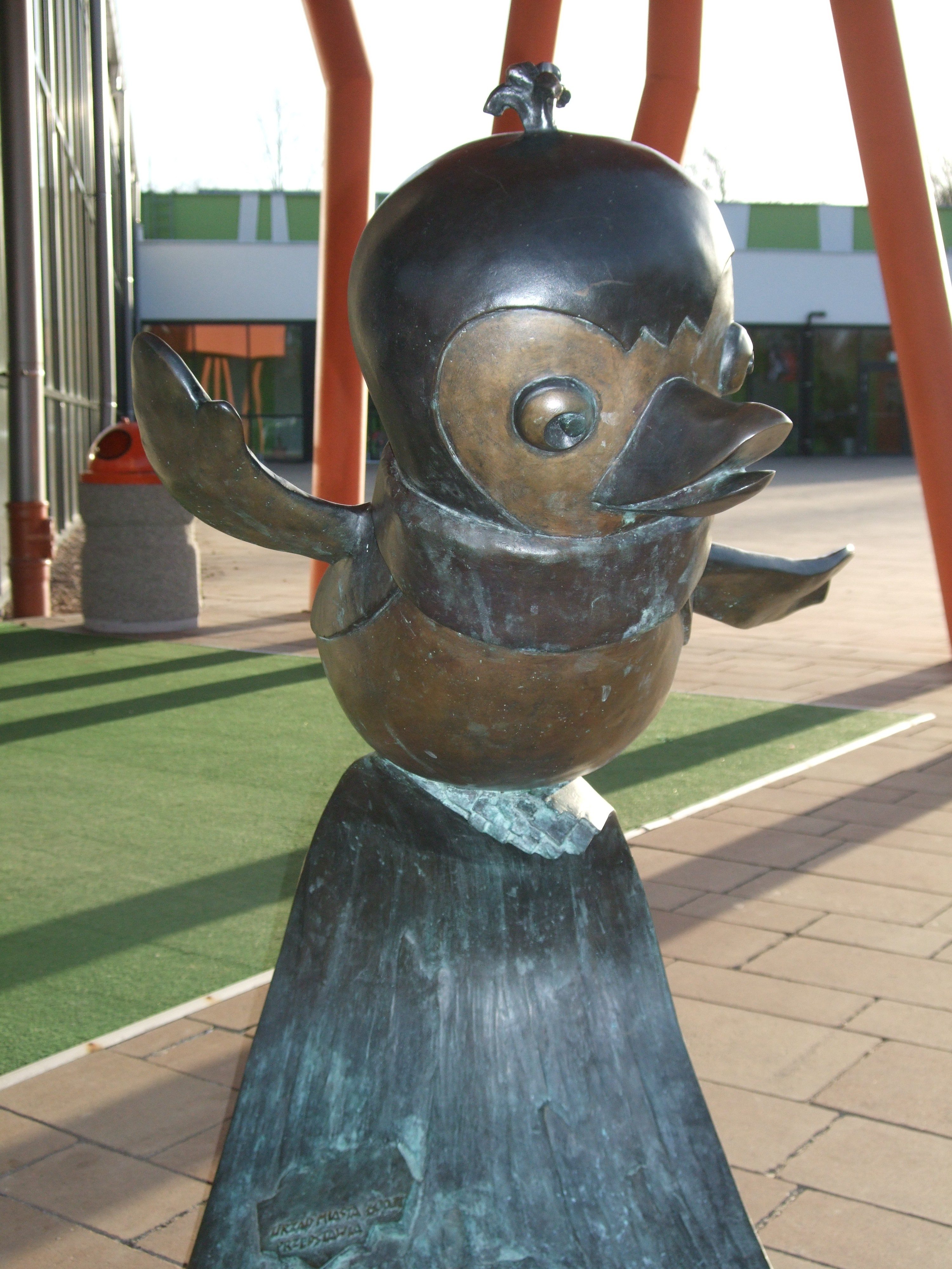 Penguin Pik-Pok, statue from polish cartoon, in front of swimming pool "Fala" in Łódź, sculptors - Magdalena Walczak and Marcin Mielczarek